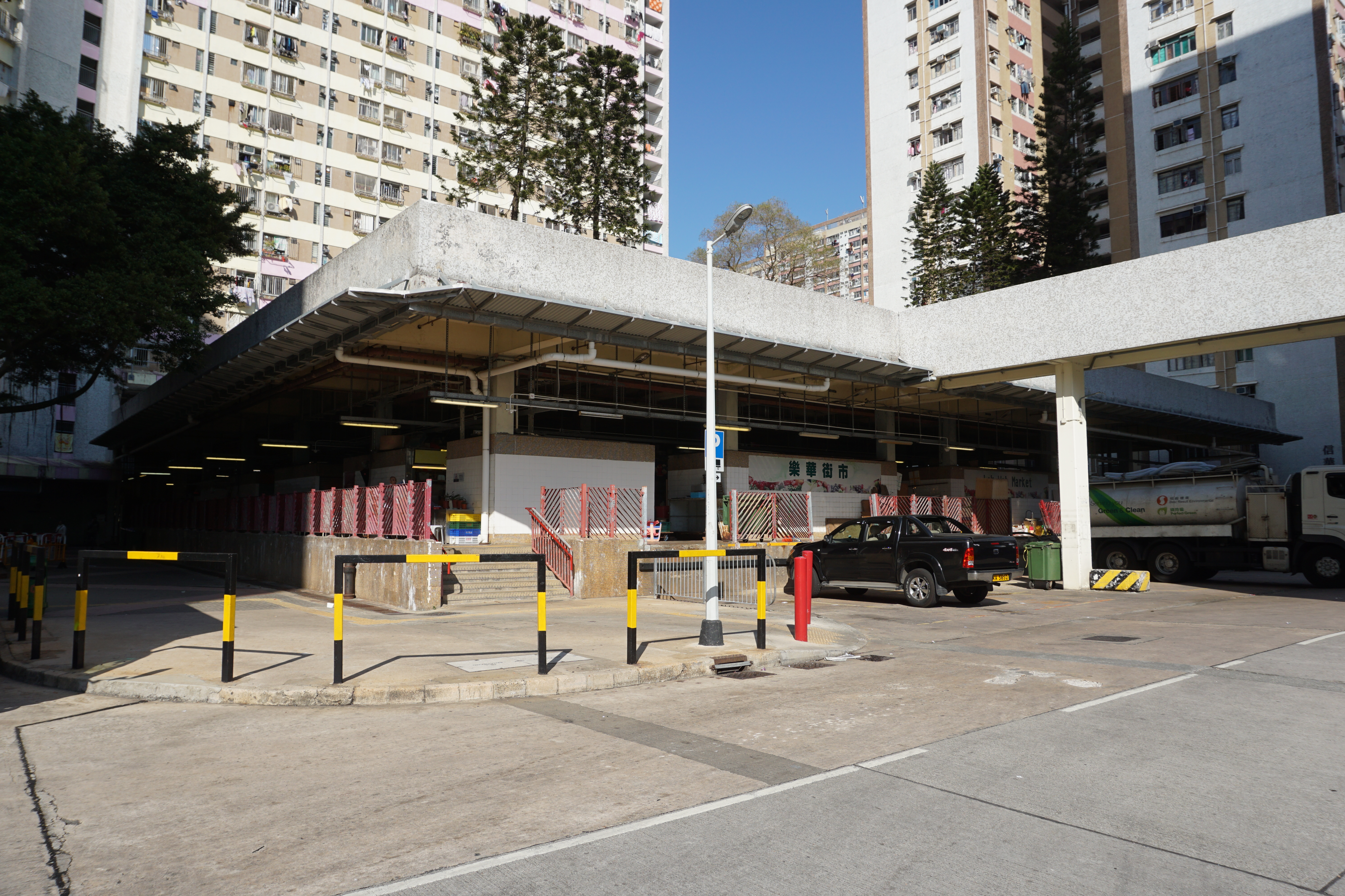 Lok Wah Market in Ngau Tau Kok, Hong Kong.